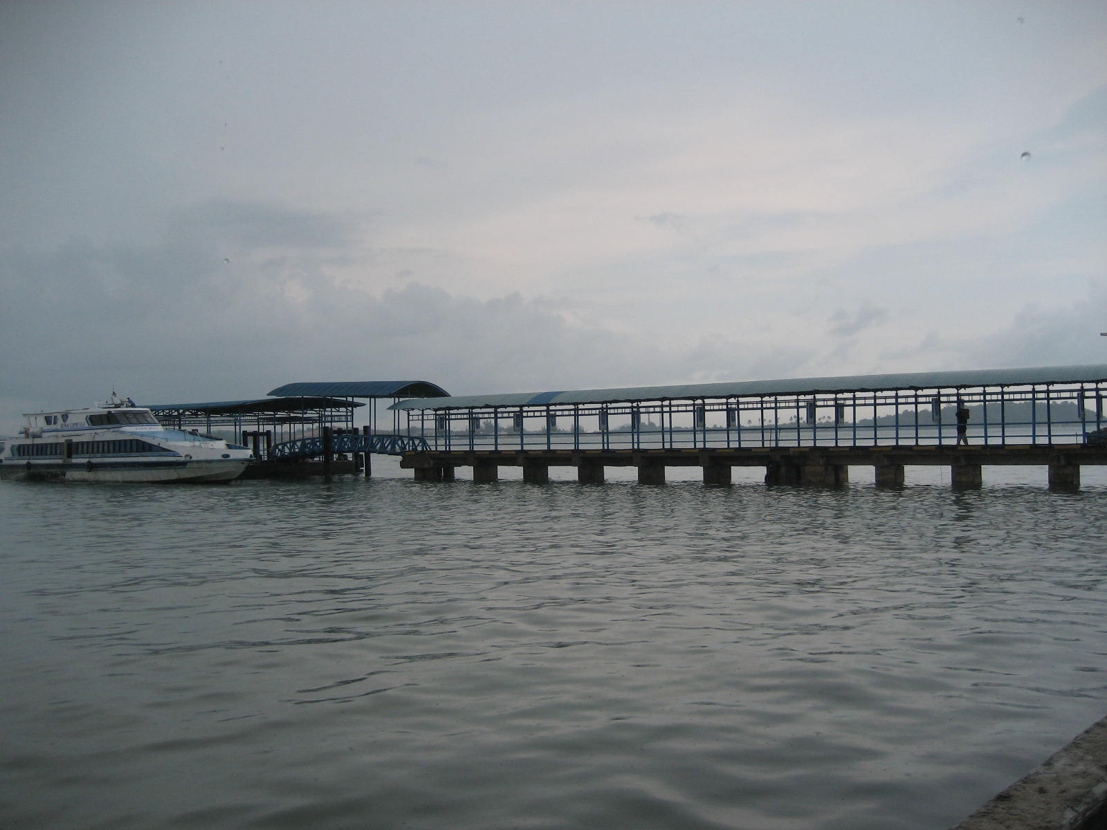 Sekupang port in Batam island, Indonesia with connections to west Indonesian islands and also Singapore & Malaysia